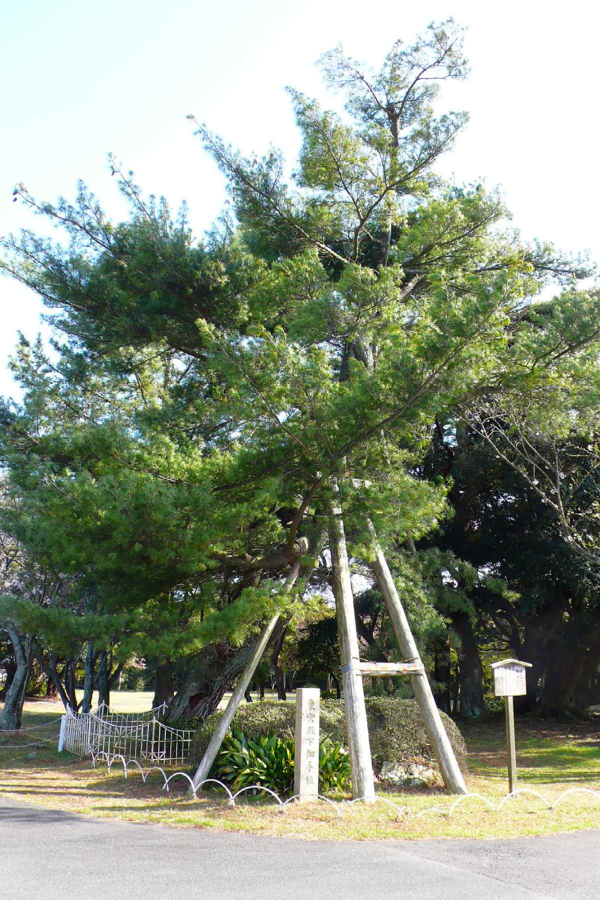 Togu-denka-oteue-no-matsu at Jingu History Museum (Jingu Chokokan), Ise, Mie, Japan. This pine tree was planted by Emperor Taishō as crown prince on November 14, 1910.